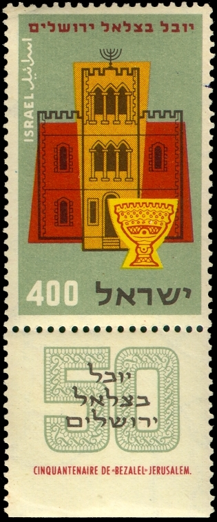 Israeli postage stamp issued toward 50th anniversary of the Bezalel Arts Academy - 400 mil